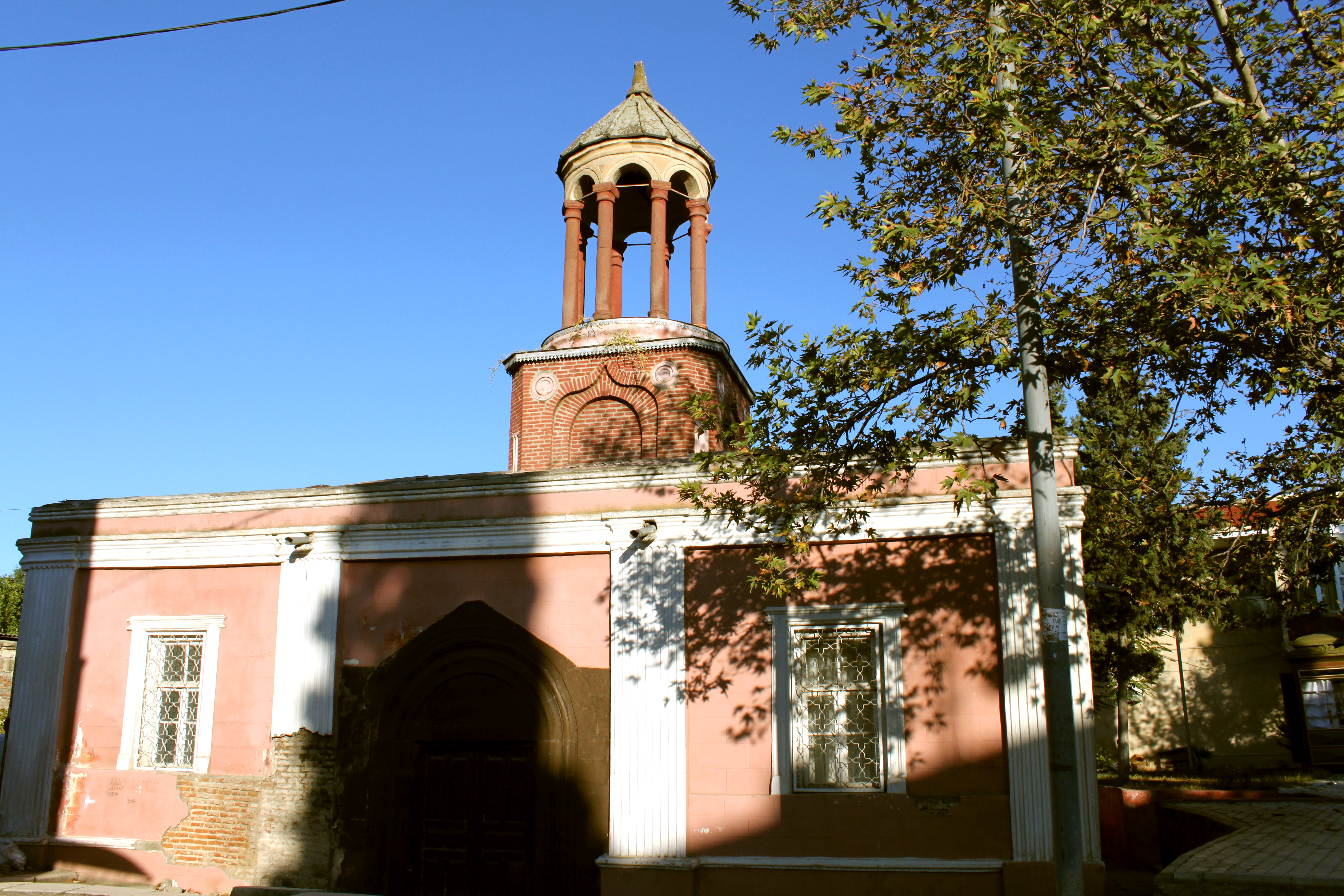 Saint Iohann Armenian church in Ganja